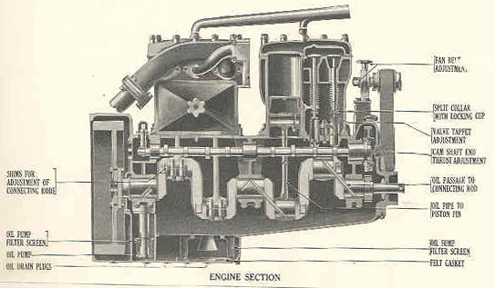 Scan from 1919 Standardized Military Truck, Class-B Manual